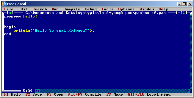 Free Pascal IDE under Windows.